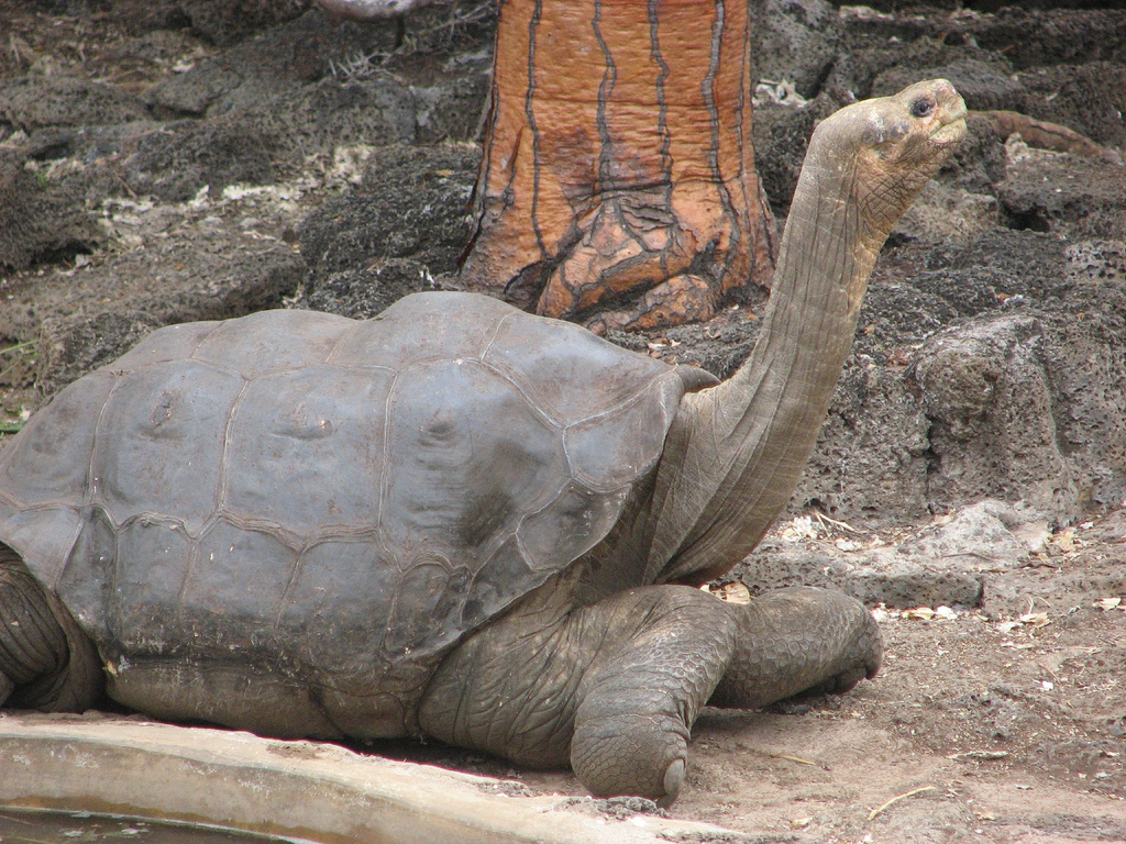 Lonesome George, the last Pinta Island tortoise (Chelonoidis nigra abingdoni)